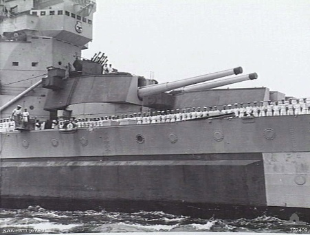 AWM caption : "SYDNEY, NSW. 1944-12-17. DETAIL VIEW OF THE TWIN 14 INCH MARK VII GUNS IN THE MARK II TWIN TURRET ON THE BATTLESHIP HMS HOWE. NOTE THE EIGHT BARRELLED 2 POUNDER AA MOUNTING ON THE TURRET CROWN. 20 MM OERLIKON AA GUNS ARE MOUNTED ABREAST THE TURRET BARBETTE AND THE BRIDGE. NOTE THE SHIP'S BADGE ON THE FACE OF THE BRIDGE. THE ARMOURED BELT ON THE HULL IS PROMINENT." Comment : The photograph shows B turret with 2 14 inch Mk VII guns.